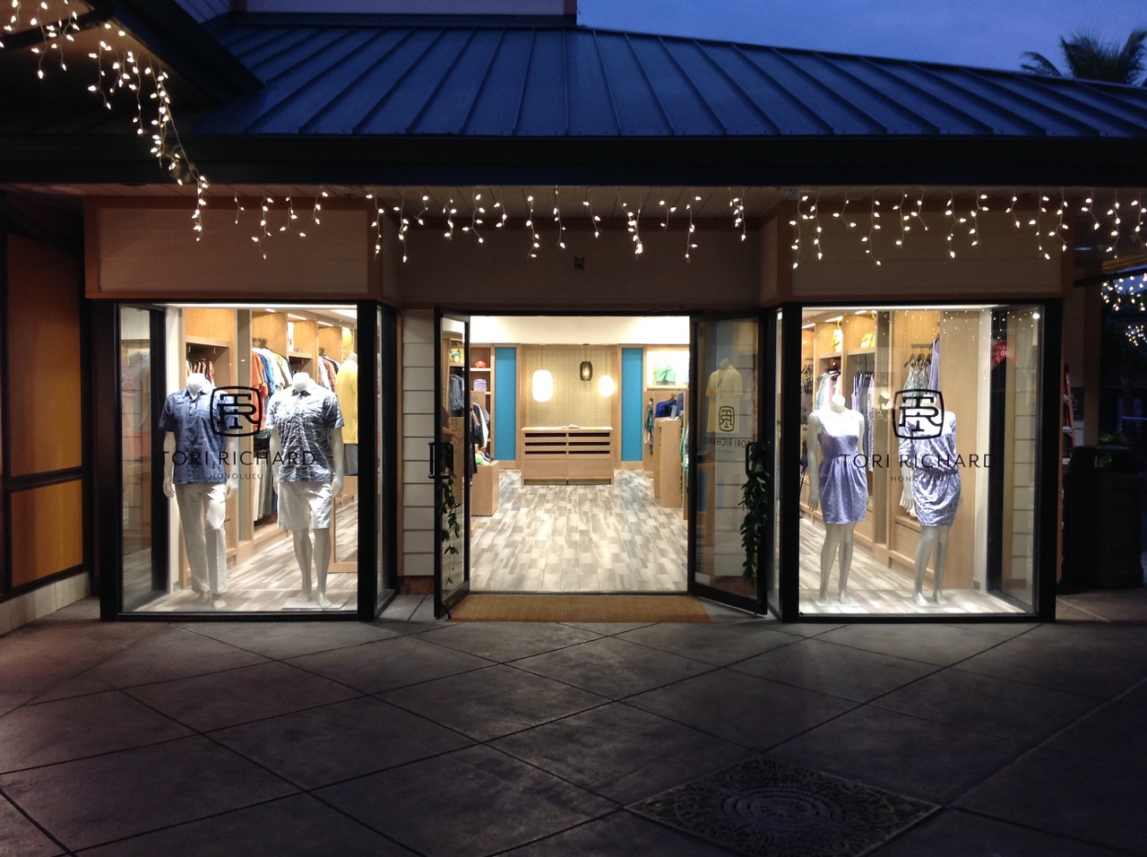 The exterior of the Tori Richard store at the Kings' Shops in Waikoloa, Hawaii Islandi